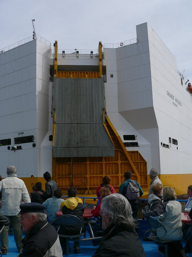 ConRo-Ship Grande Nigeria Door / ramp Length: 214,00 m Speed: 20,0 Kn DWT: 24.800 Build: 2003; Fincantieri-Cantieri Navali Italiani S. p. A. (Triest, Italy) Trucks: 2.500